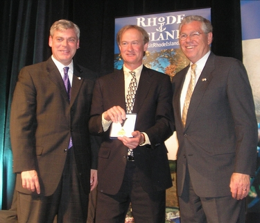 Senator Chafee is shown receiving the “Tourism Hero” award at the Rhode Island Tourism Unity Luncheon. He is joined by Warwick Mayor Scott Avedisian (L) and Governor Don Carcieri (R). The Warwick Tourism Office presented Chafee with the award for his accomplishments as Mayor of the city of Warwick and his continued efforts as a U.S. Senator.